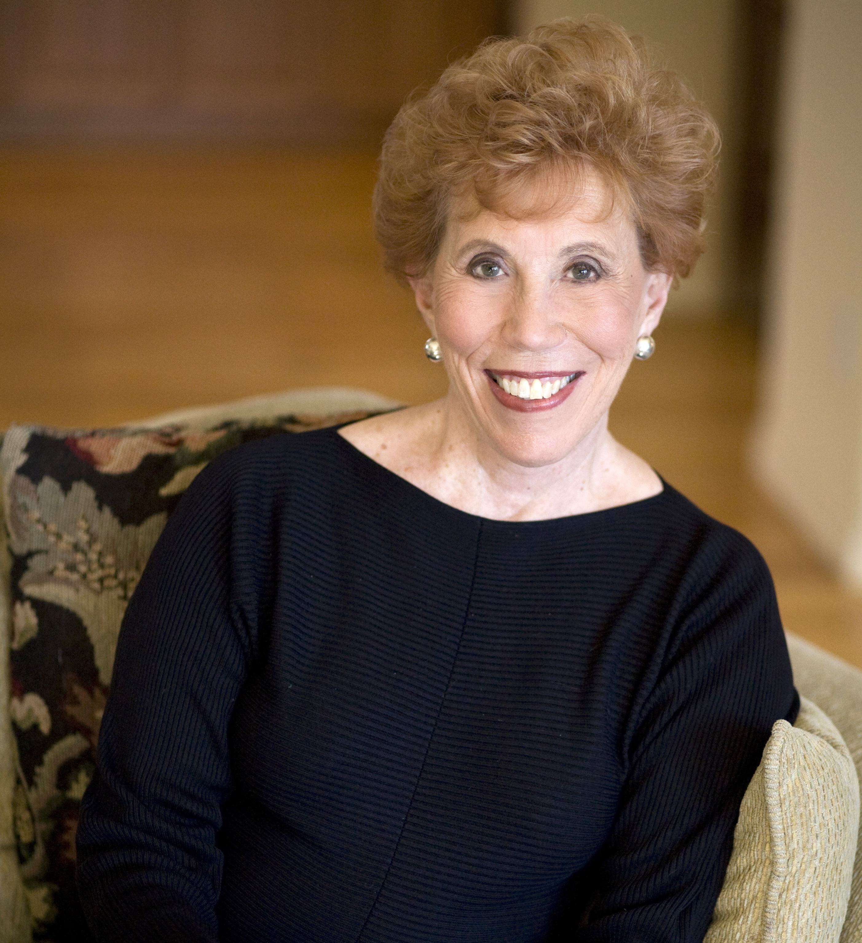 Portrait Photo of Marilyn Hickey